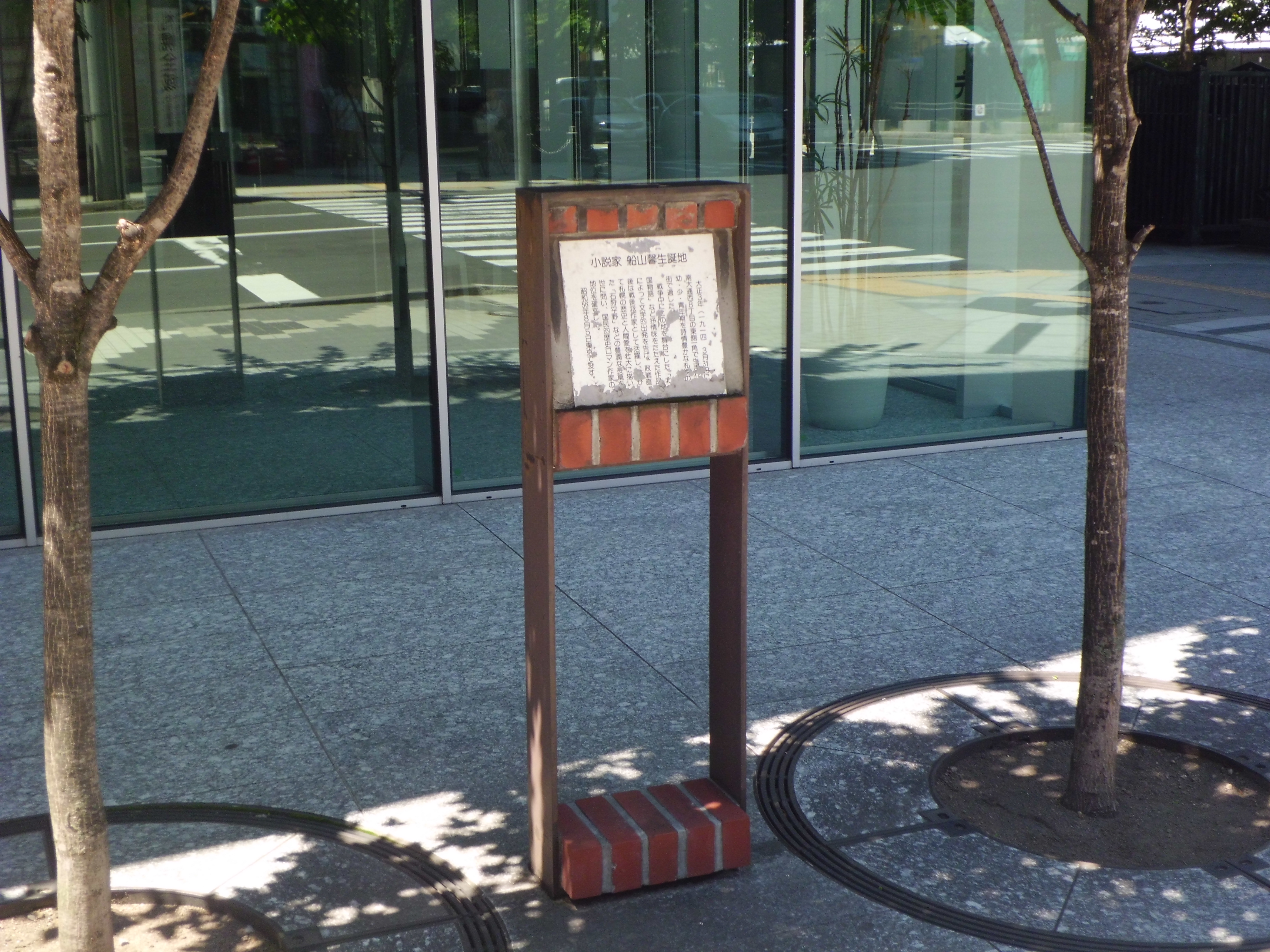 Birthplace of Kaoru Funayama